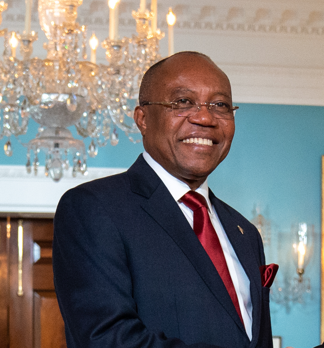 U.S. Secretary of State Michael R. Pompeo meets with Angolan Foreign Minister Manuel Domingos Augusto, at the U.S. Department of State in Washington, D.C., August 19, 2019. [State Department photo by Ron Przysucha/ Public Domain]